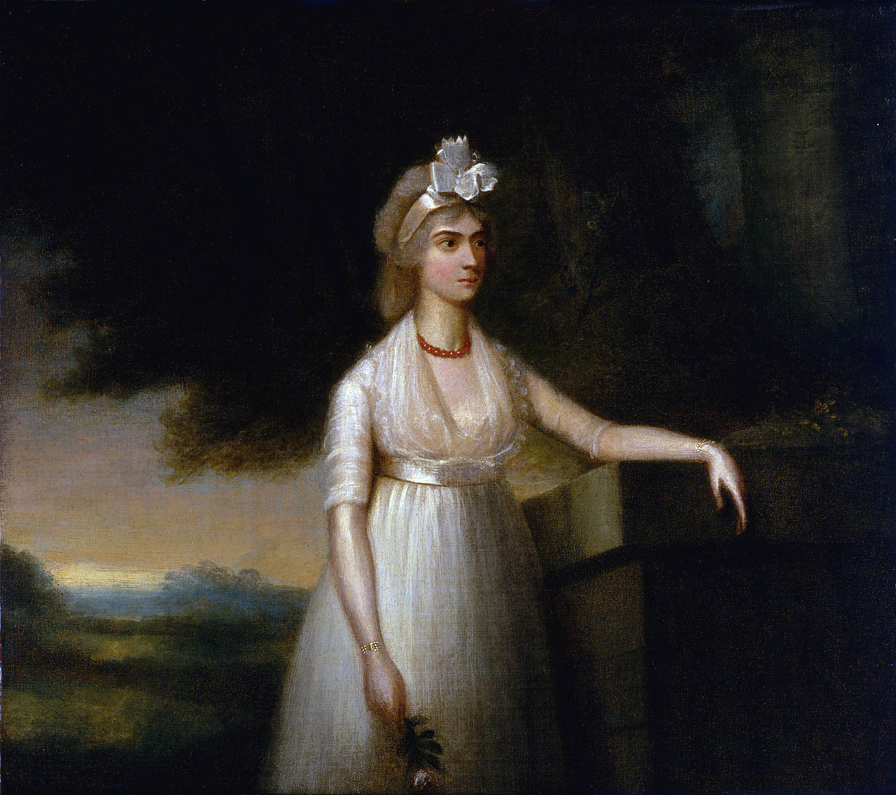 Portrait of Frances Nelson, 1761-1831, 1st Viscountess Nelson A three-quarter length portrait of Frances Nelson, to the right in a white dress with bandeau and wearing a red coral necklace round her neck. She has a bracelet on her right arm and holds a white rose in her right hand. She looks out of the picture space to her right and her left arm rests on a column supporting a large urn. Landscape is implied on the left. This portrait is a copy, formerly attributed to Richard Cosway: the original version showed the Battle of Nile in the background.